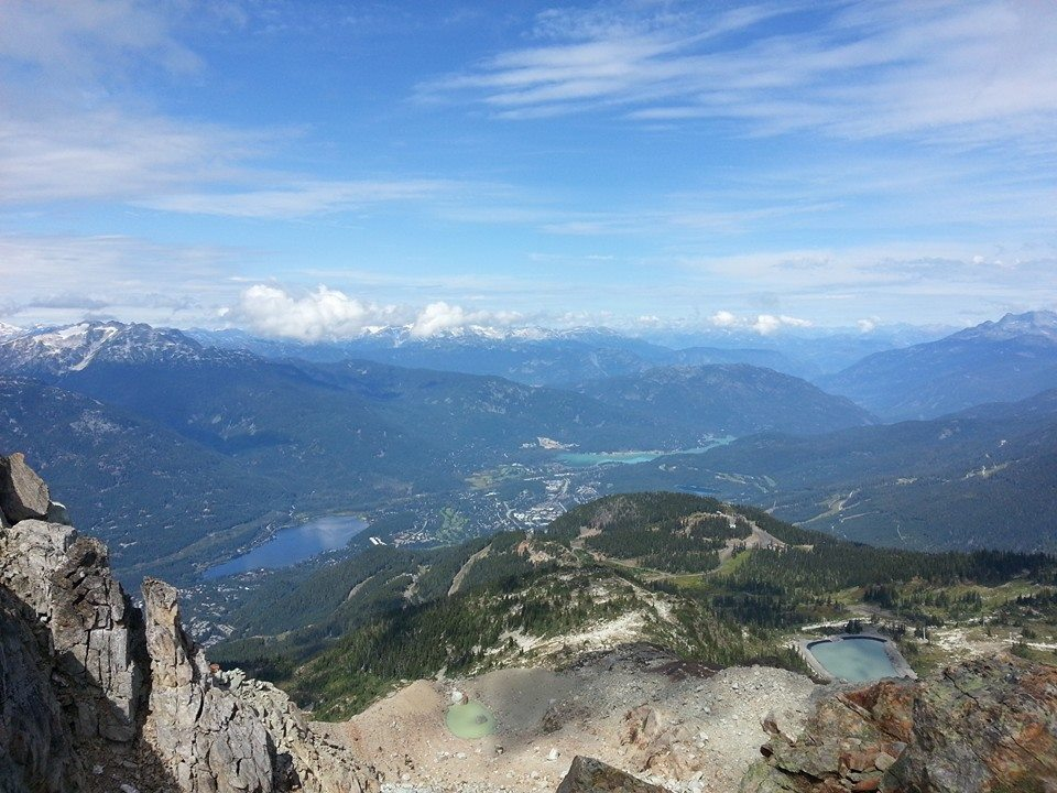 The top of the "Top of the World" trail in Whistler B.C. and the star of a stage during the Whistler Crankworx Enduro Race